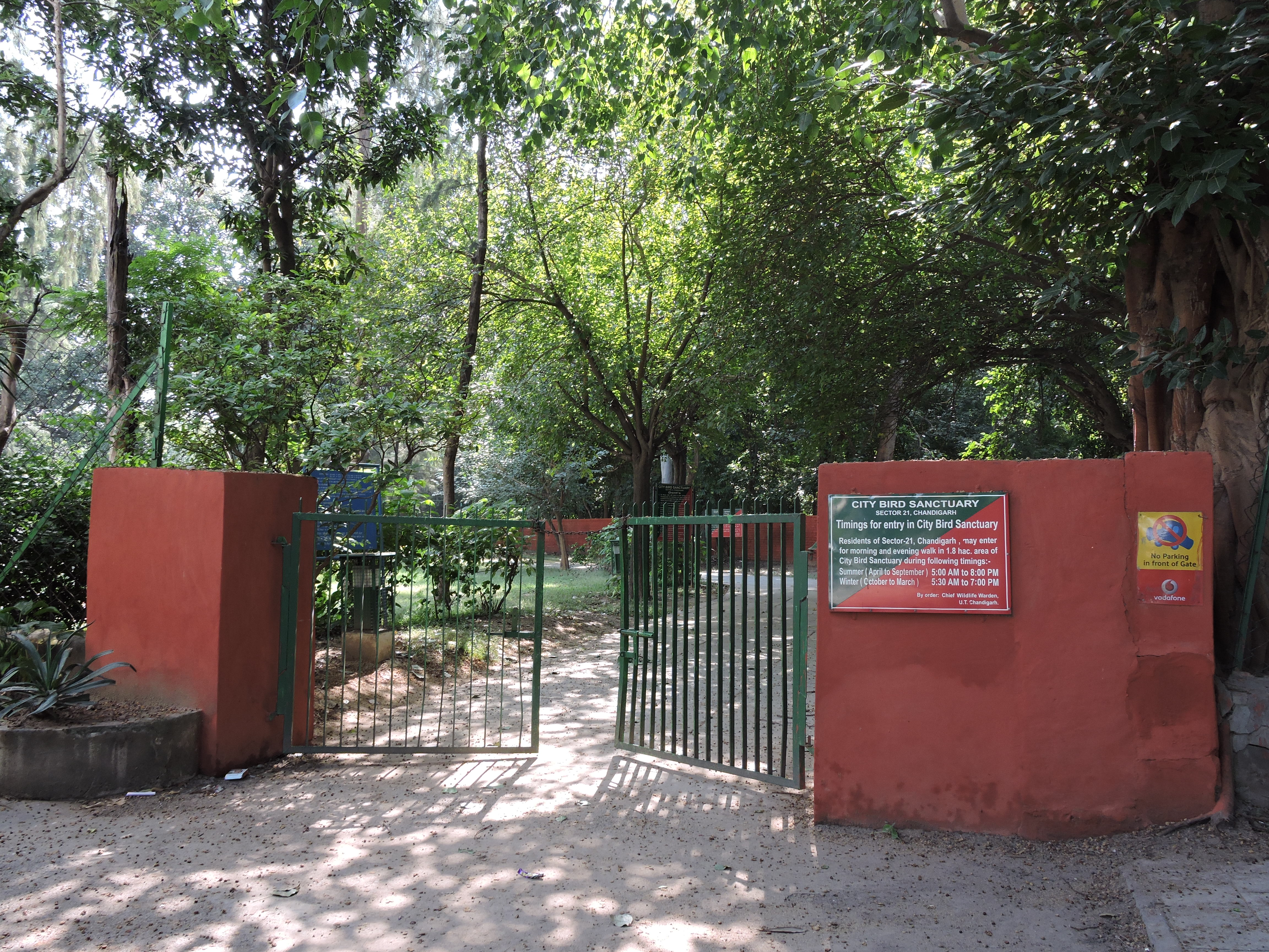 City bird Sanctuary, Chandigarh, India- entrance gate